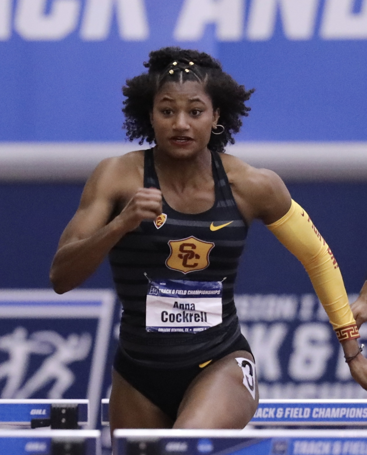 Anna Cockrell by Jenaragon94 - 2018 at the Track and Field champs in 2018